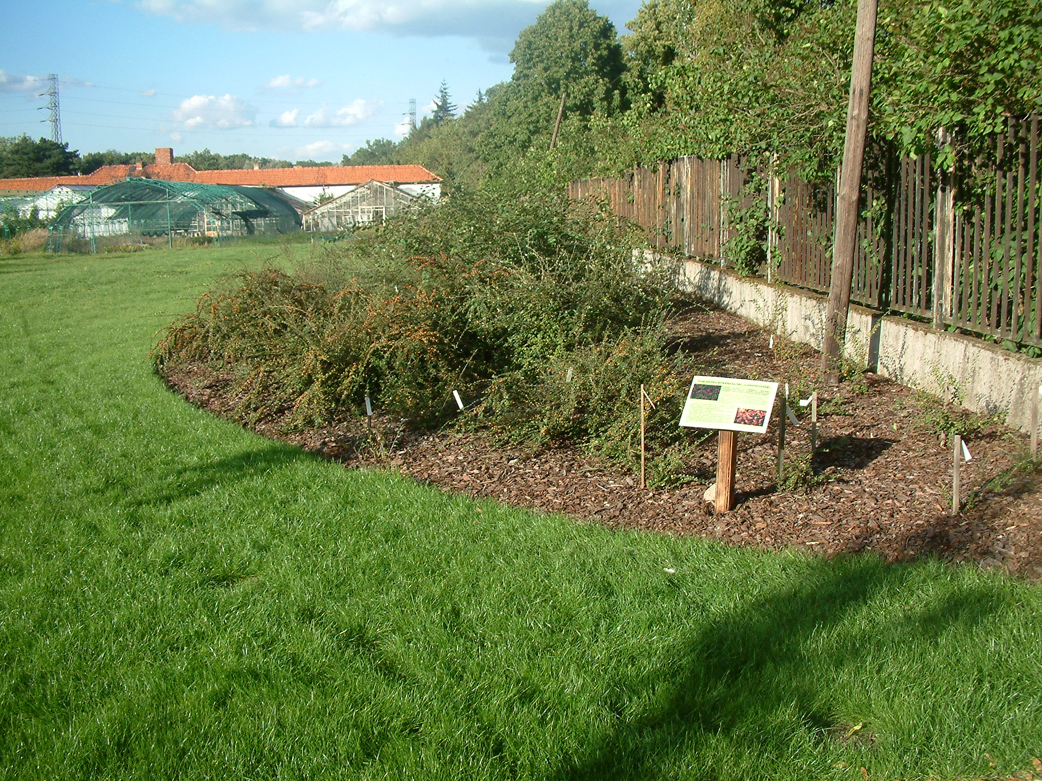 Polish National Collection of Cotoneaster, Botanical Garden in Poznań